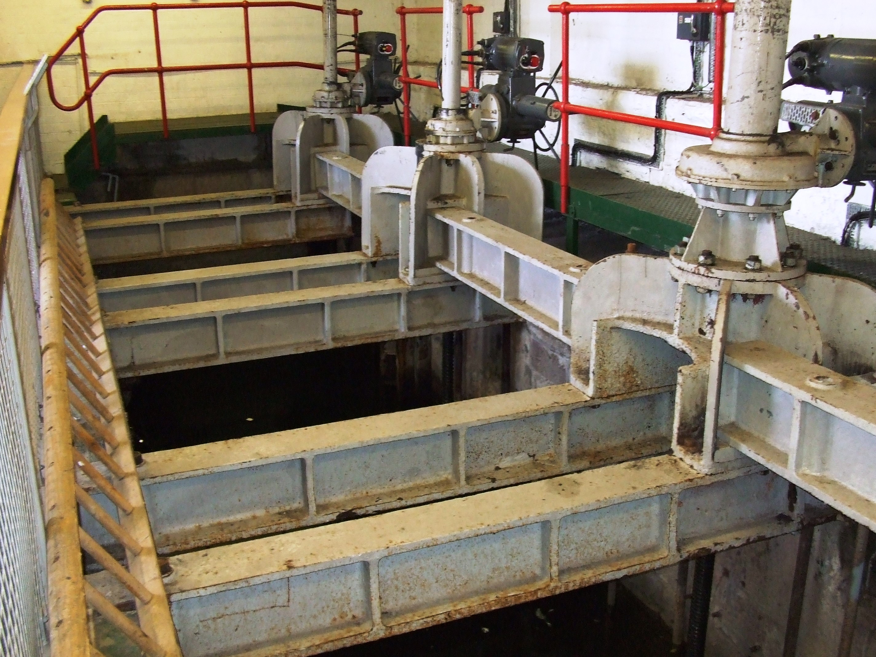 Underfall Sluices, Bristol Harbour